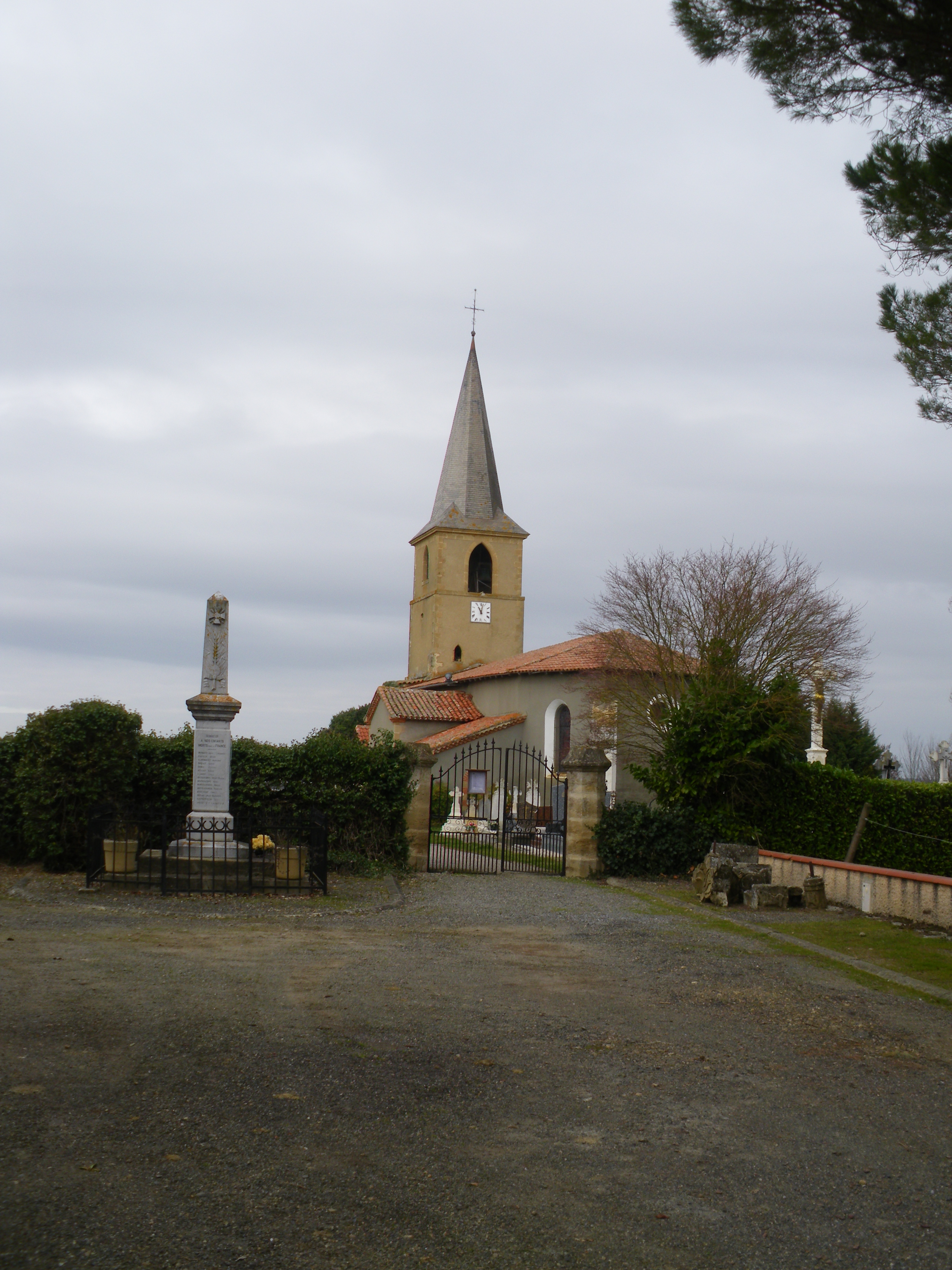 Church of Sainte-Aurence-Cazaux.